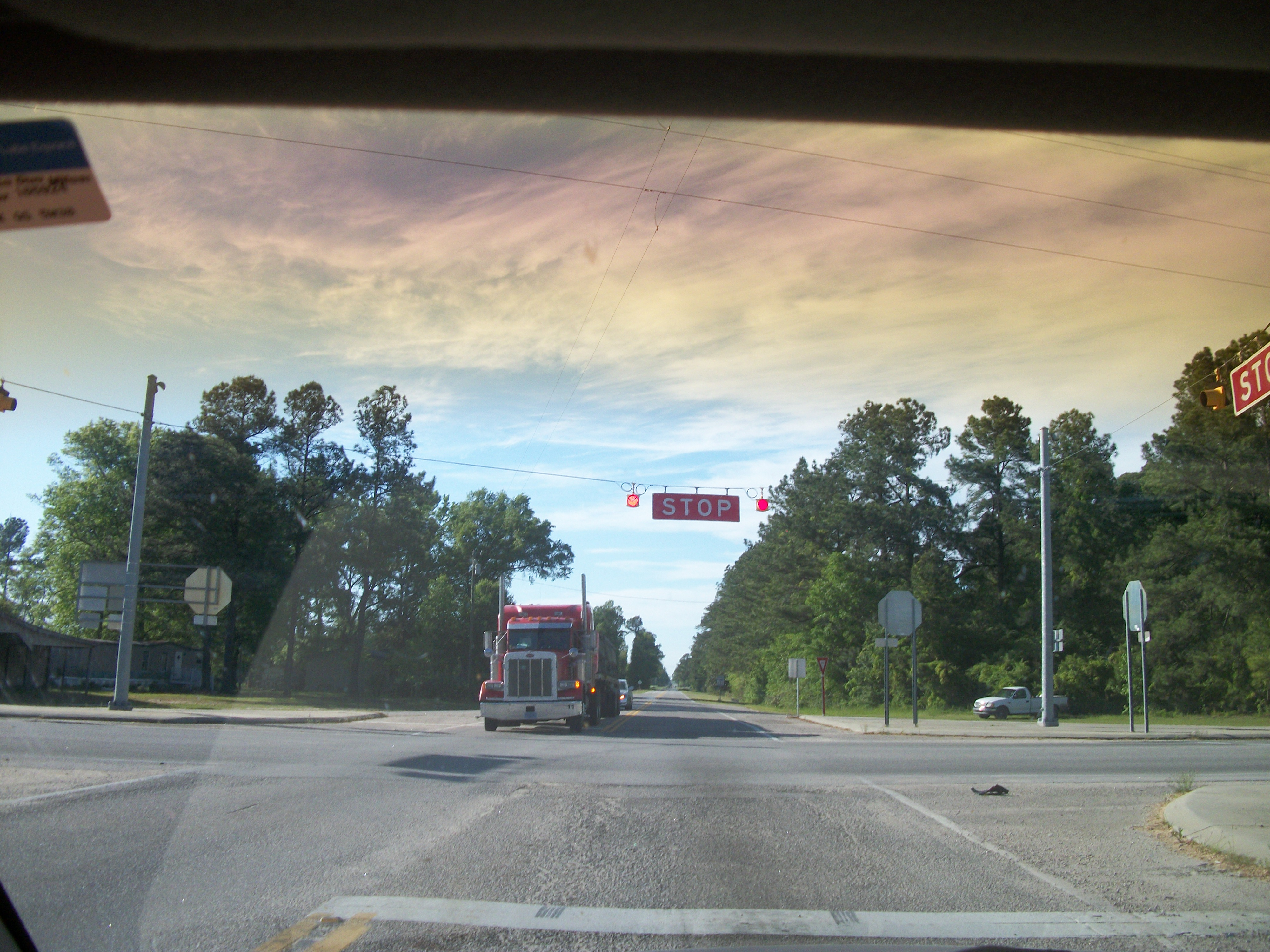 Northbound South Carolina Route 527 at the intersection of US 301 in Sardinia, South Carolina. Note the unorthodox overhead stop signs and blinker lights at the intersection, which you'll find in all directions.